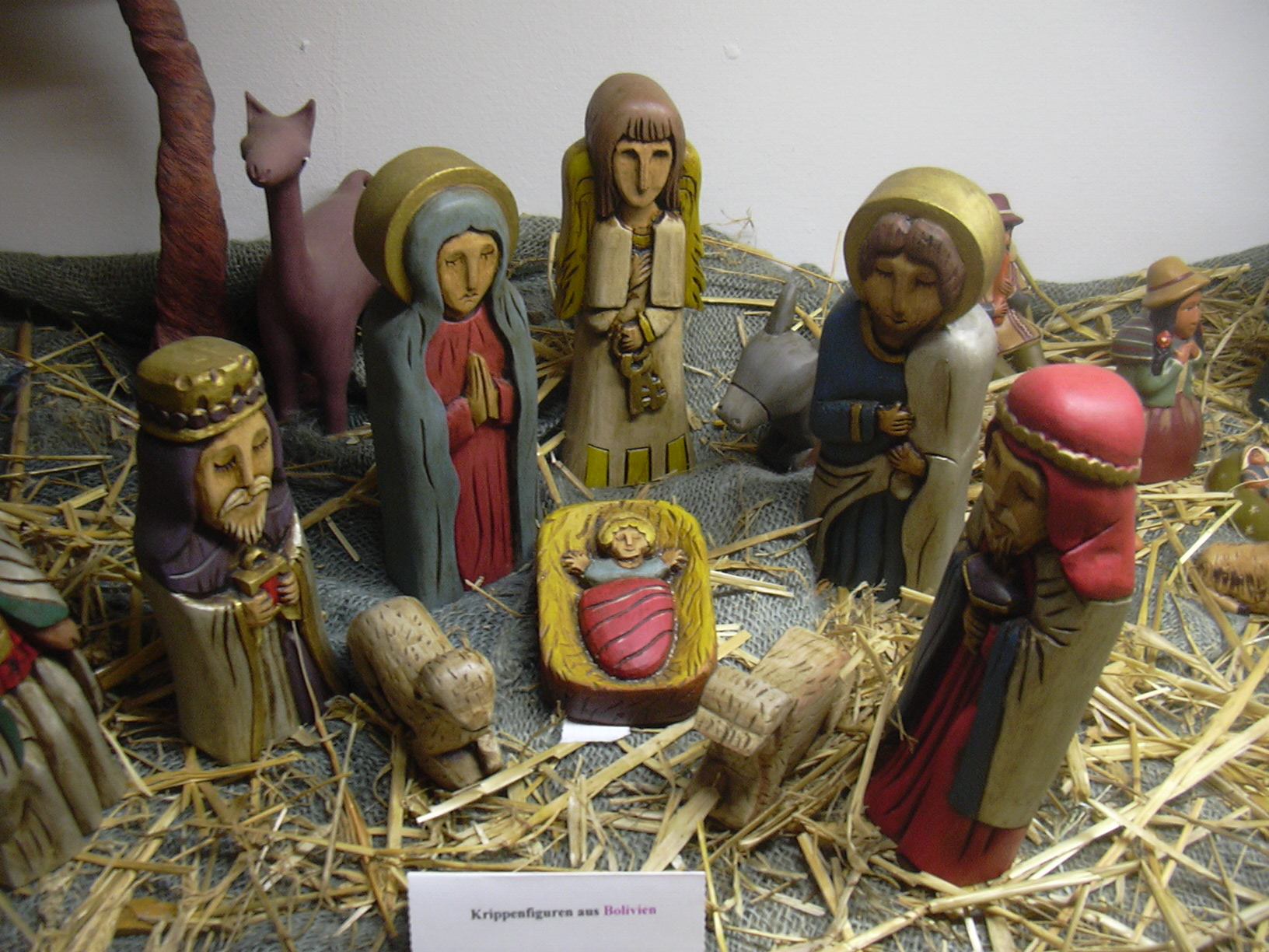 crib (nativity scene) from Bolivia, crib exhibition of Waldbreitbach/Westerwald